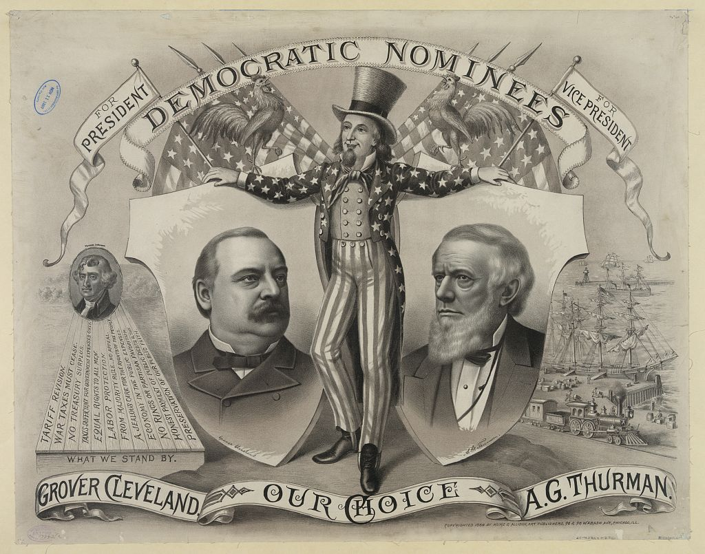 Print showing Uncle Sam standing with large shields on which are portraits of 1888 presidential and vice-presidential nominees Grover Cleveland and A.G. Thurman. Includes Democratic party platform, a cameo portrait of Thomas Jefferson, a dock scene with ship and railroad, and roosters--a symbol of the Democratic party before the donkey. Platform planks ("What we stand by") are: Tariff revision War taxes must cease No Treasury surplus Taxes sufficient for government expenses only Equal rights to all men Labor protection From majority rule -- No appeal A jealous care for the rights of the people Economy in the public expenses No Rings or partisan favoritism [i.e. no crony capitalism] Honest payment of public debts XXXX[? last word illegible] Preservation of our public faith (Note that "Equal rights to all men" did not actually mean that the Democratic party was any kind of advocate for black equality, something which did not really become the case until at least the 1940s.)